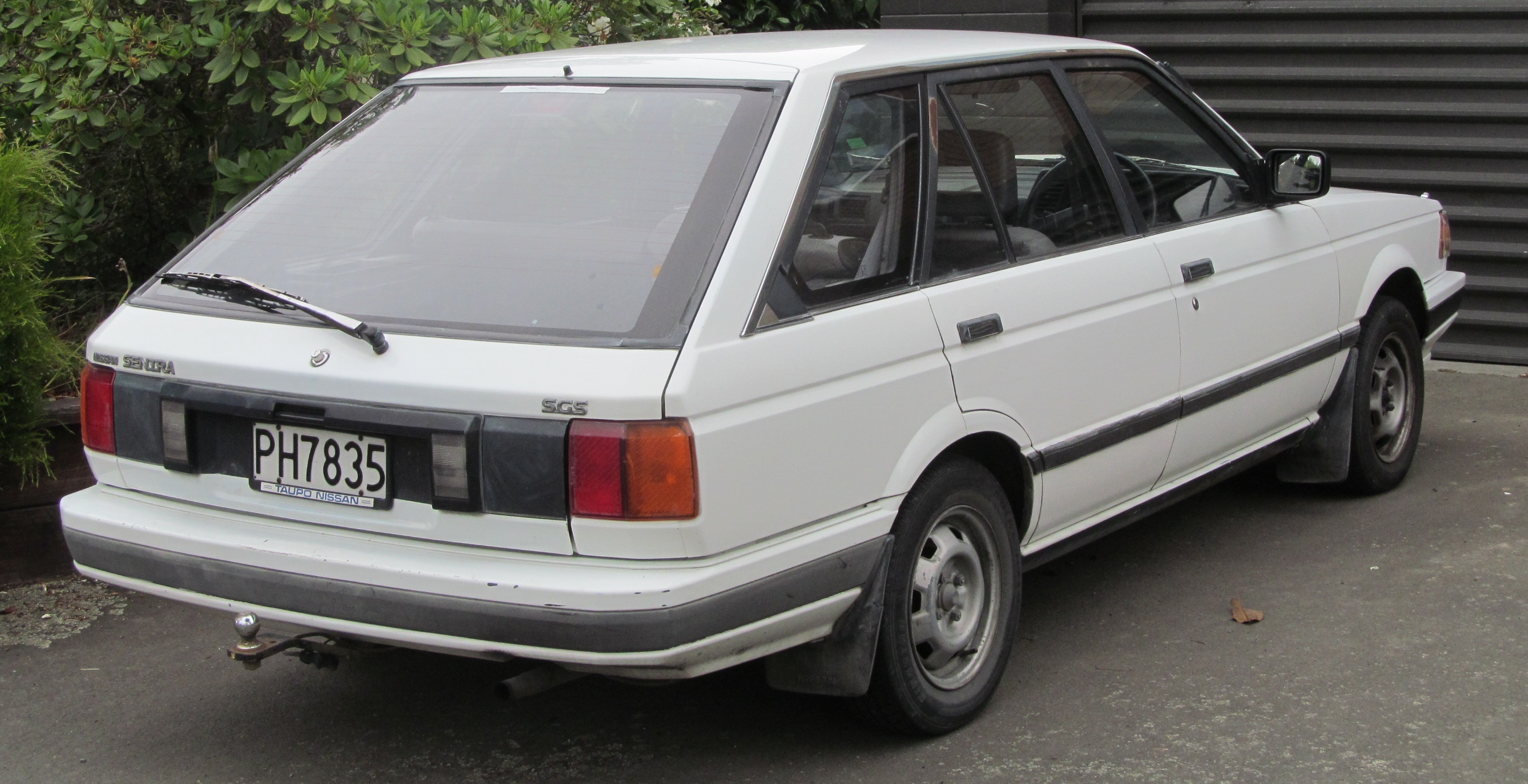 Nissan Sentra SGS Sportswagon (New Zealand). Despite carrying the name of Sentra with the hatchback and sedan otherwise known as 'Pulsar', the Sportswagon is actually based on the Sunny B12.